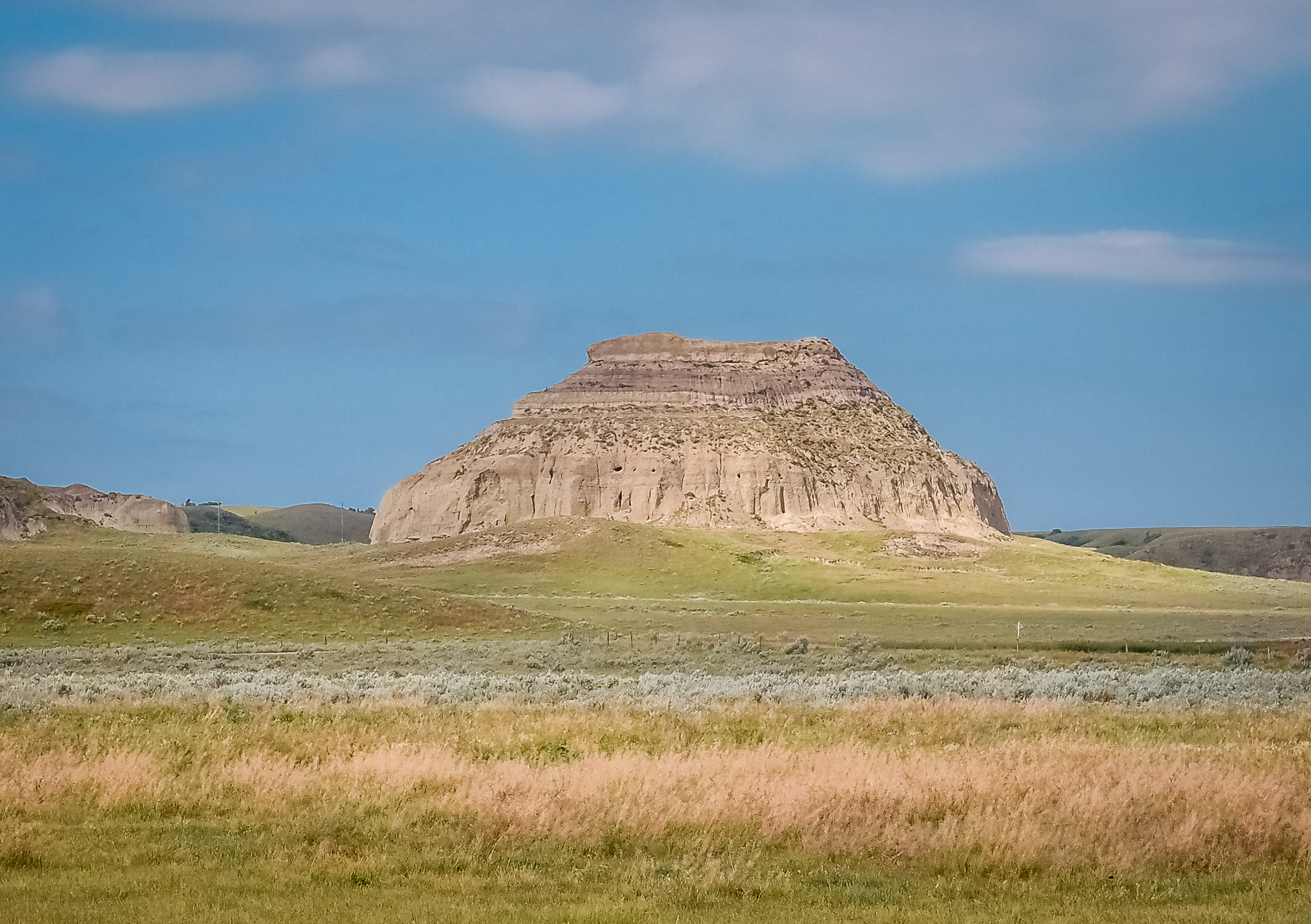 Castle Butte, Saskatchewan, Canada, 2013